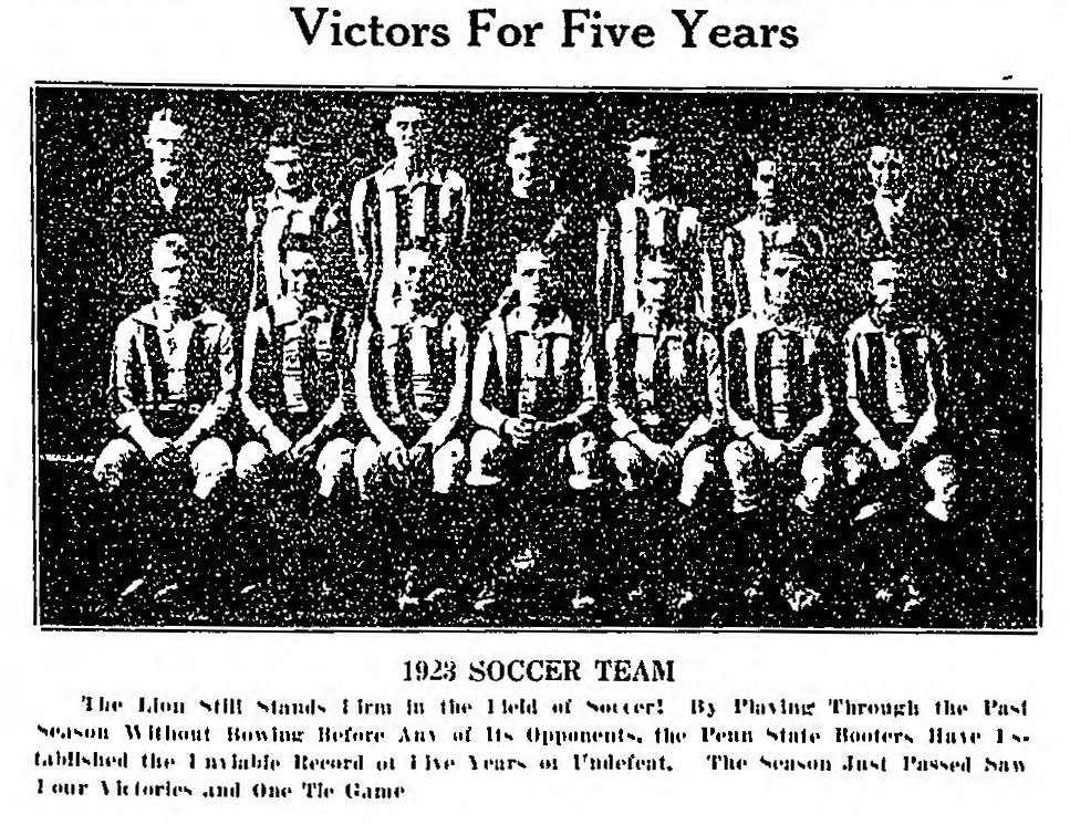 Team photo of the 1923 Penn State Soccer Team published on June 04, 1924 in the Penn State Collegian newspaper.